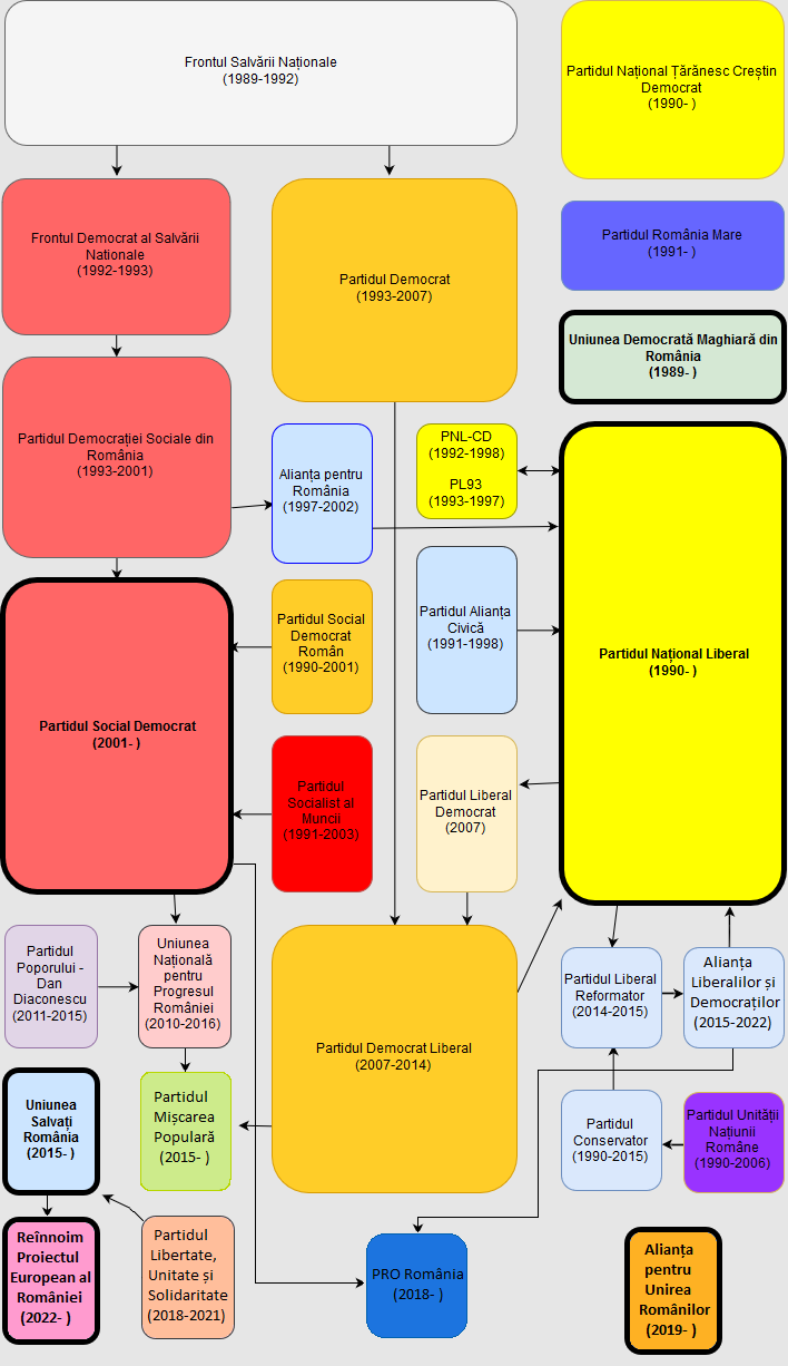 Major political parties in Romania since 1989. In bold the parties with parliamentary representation during the 2016-2020 legislature